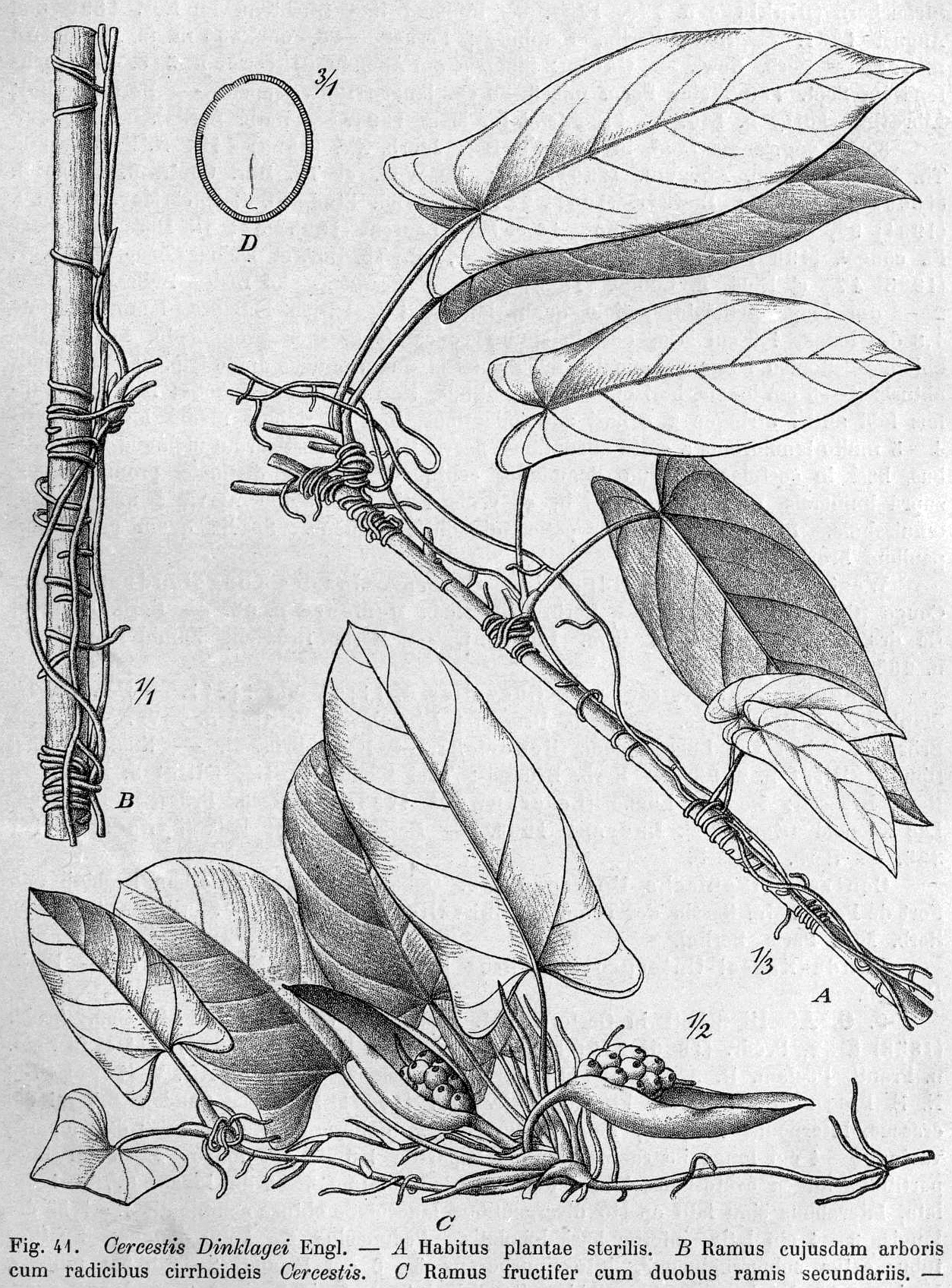 Cercestis dinklagei botanical drawing